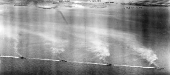 The U.S. Navy cruisers USS Santa Fe (CL-60), USS Louisville (CA-28), USS San Francisco (CA-38), and USS Wichita (CA-45), left to right, bombarding Kiska on 22 July 1943.